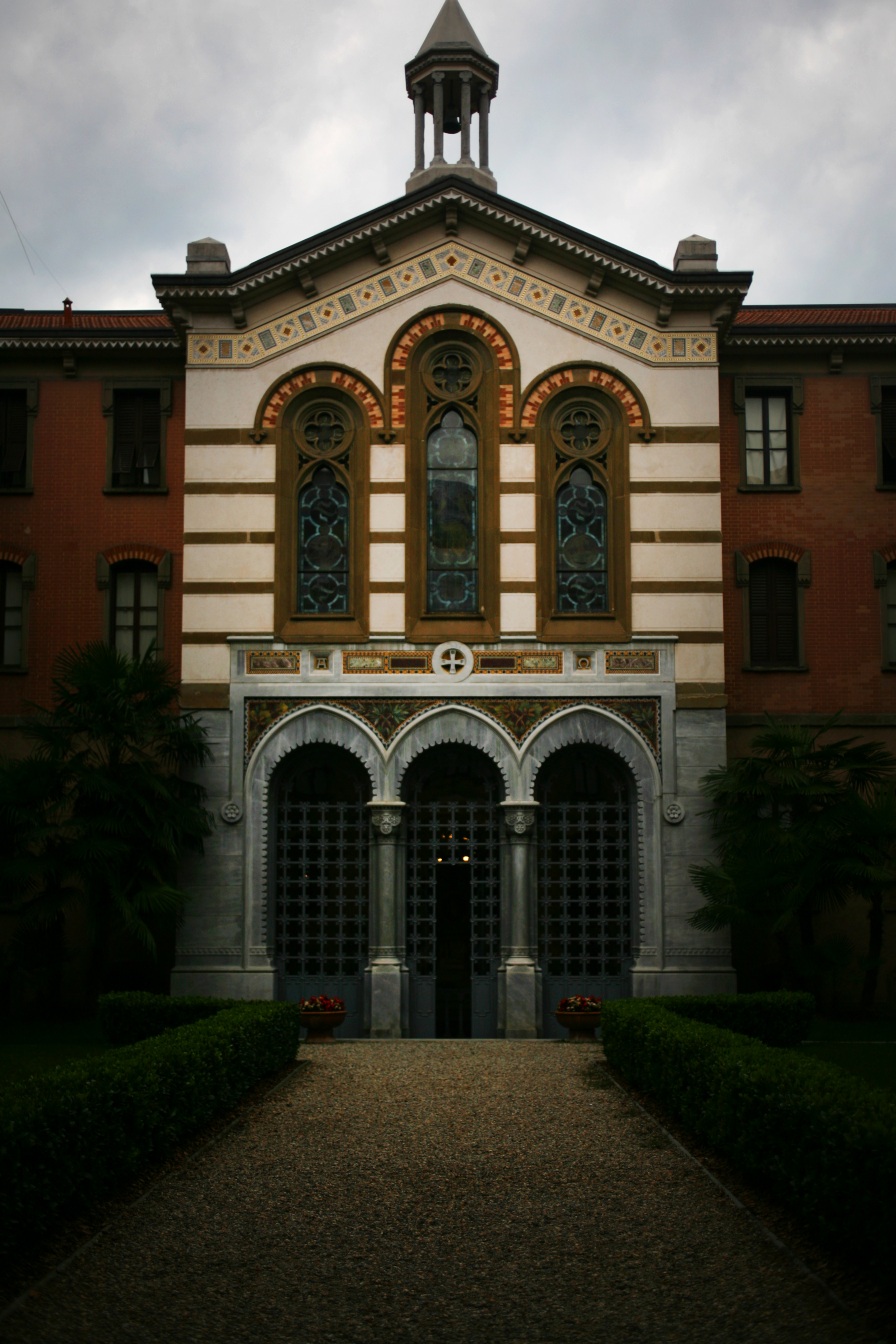 The crypt at Casa di riposo per musicisti, Milan, where Giuseppe Verdi and Giuseppina Strepponi are buried.